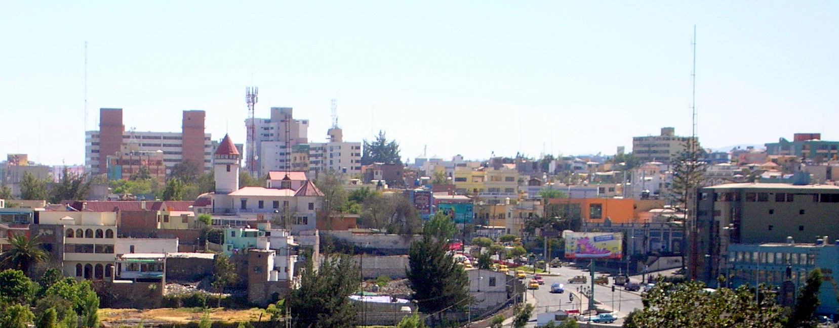 Panoramic wiev of Cayma and Yanahuara